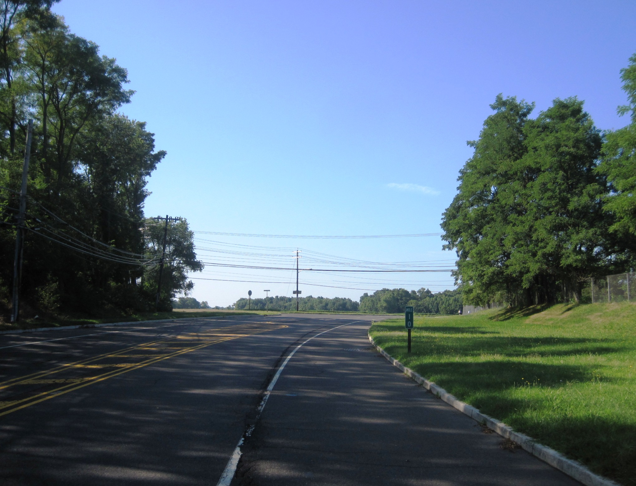 Photo showing Newbolds Corner, New Jersey, an unincorporated community within Lumberton Township. Photo taken along southbound Eayrestown Road (County Route 612) approaching Newbolds Corner Road.